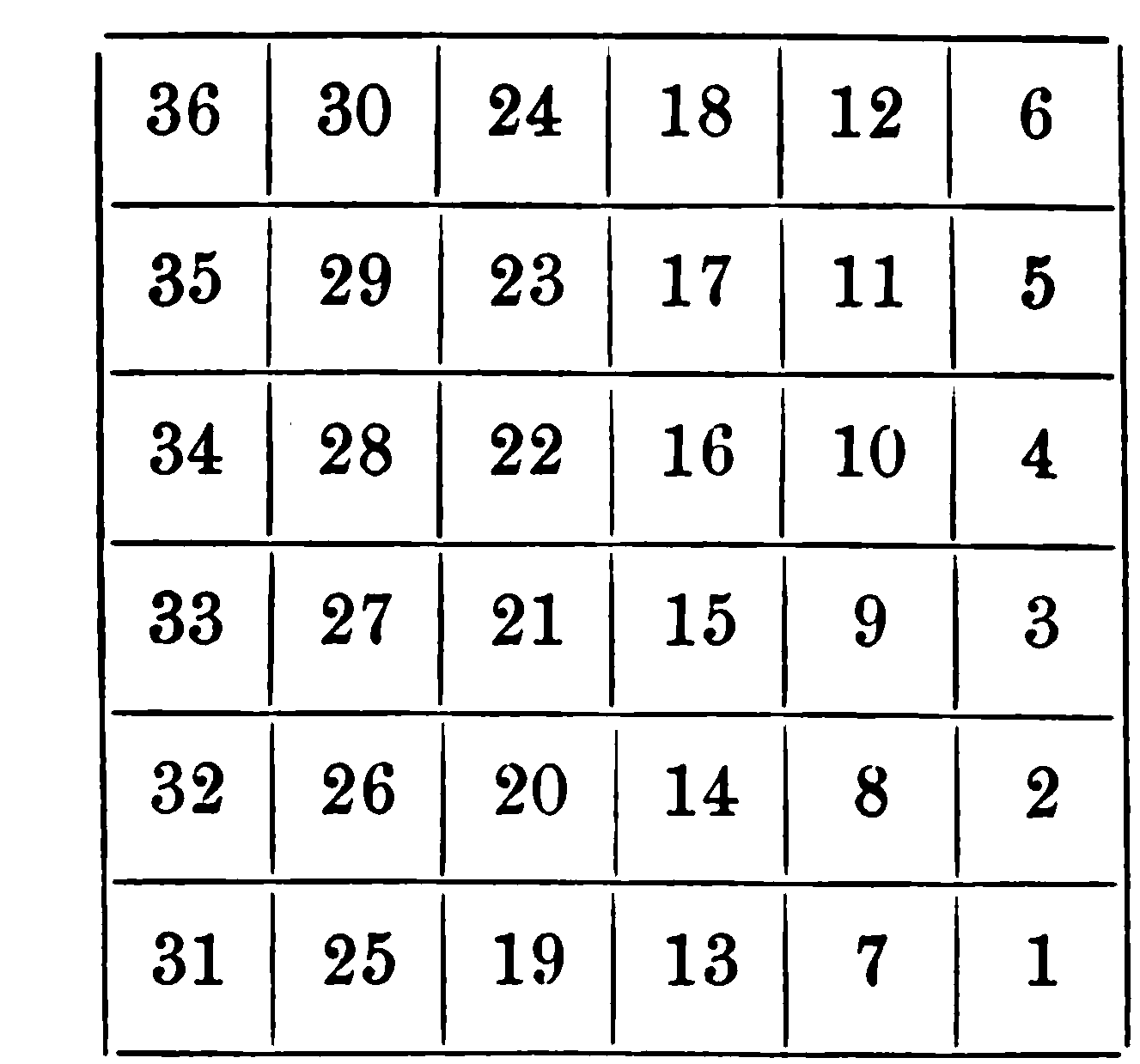 the manner in which sections of a township would be numbered according the the Land Ordinance of 1785, used only in parts of Ohio